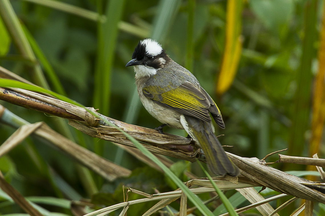 Light-vented Bulbul - Taiwan_S4E8863